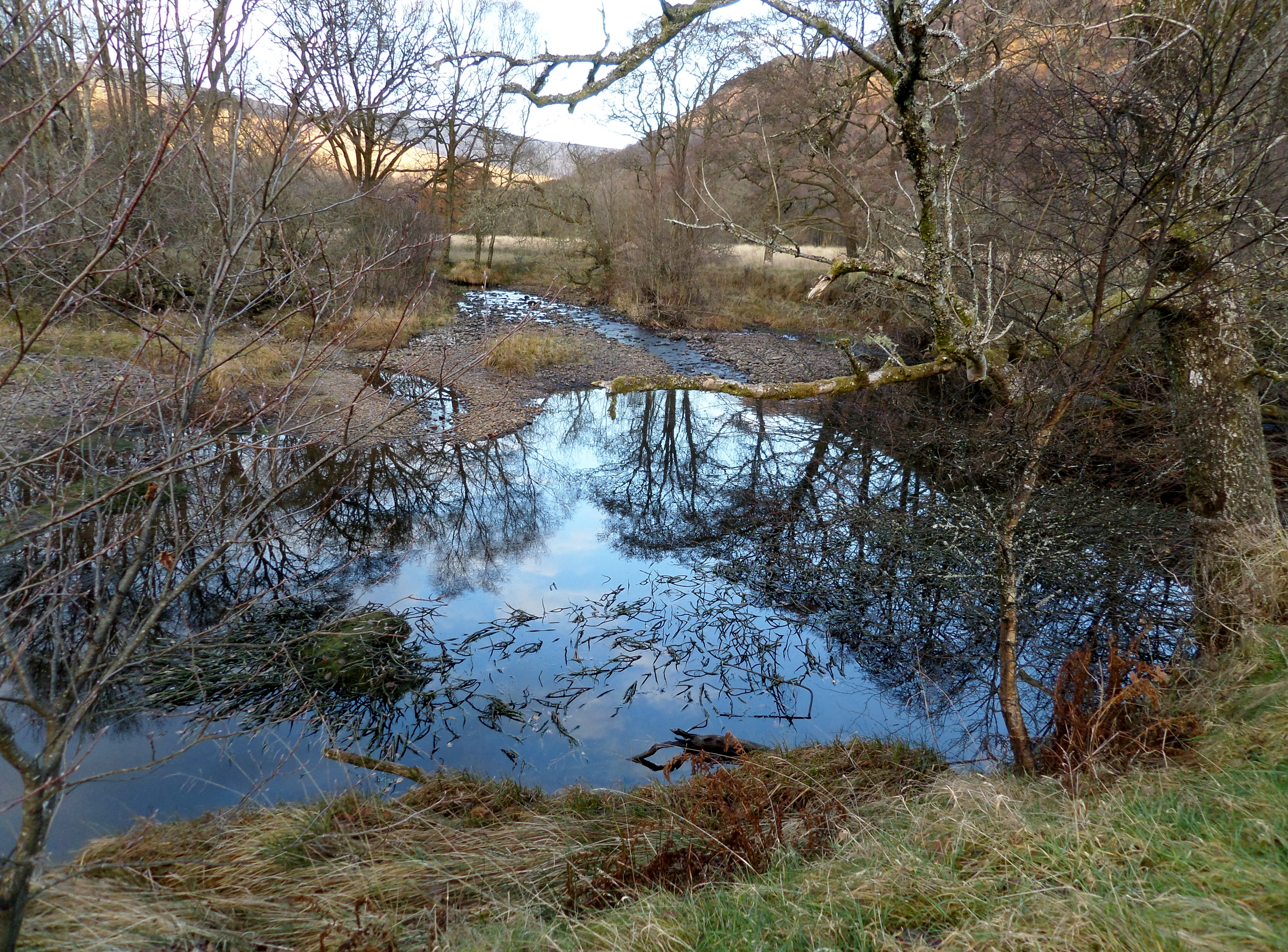 The new Garabal Bason on the 1844 Inverarnan Canal, Stirling. Scotland.